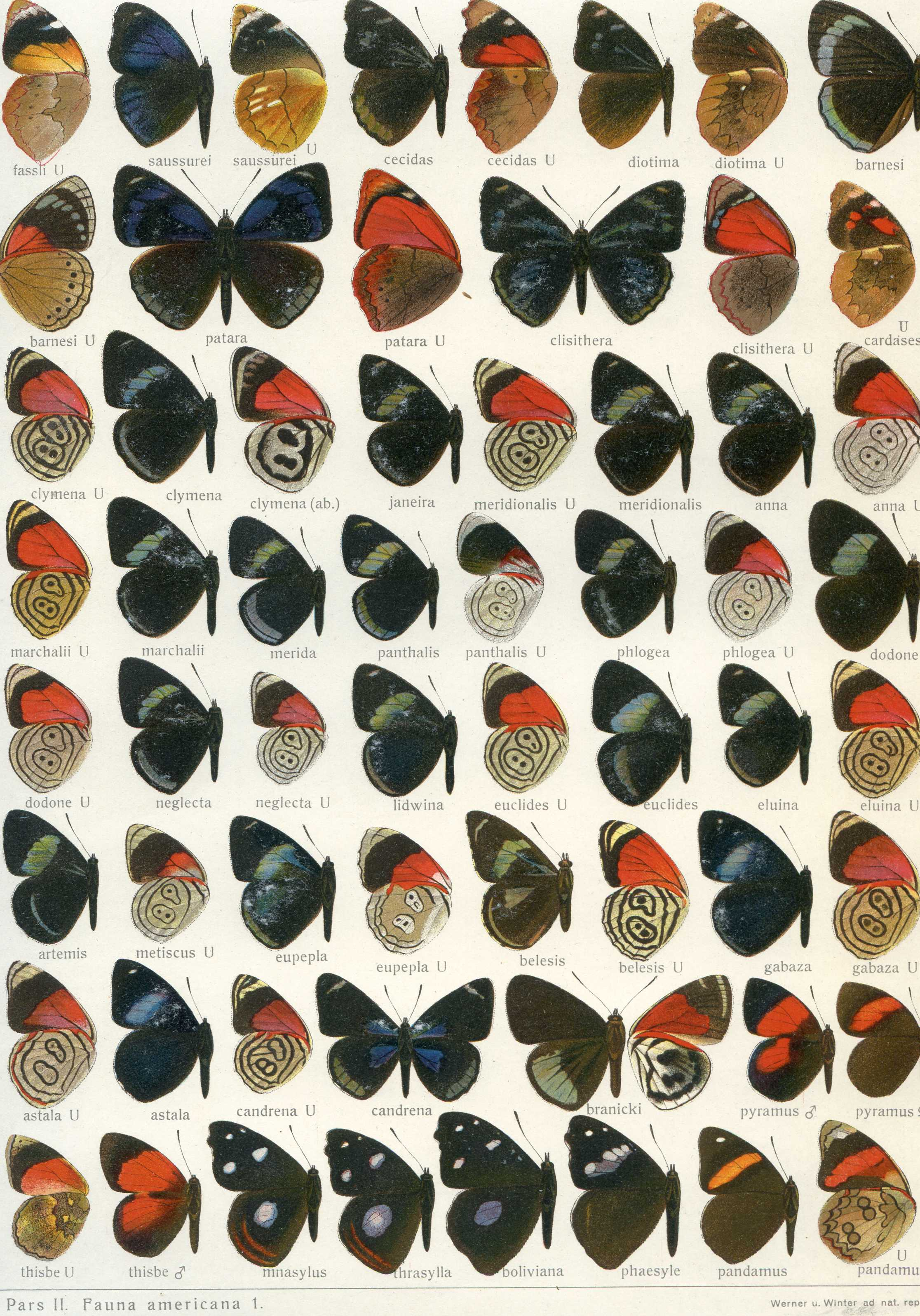 Perisama-Callicore Plate from Seitz, A. ed. ( 1907) Die Großschmetterlinge der Erde, Verlag Alfred Kernen, Stuttgart Band 5: Abt. 2, Die exotischen Großschmetterlinge, Die Großschmetterlinge des amerikanischen Faunengebietes, The Macrolepidoptera of the world : a systematic account of all the known Macrolepidoptera: The Macrolepidoptera of the American faunistic region.text online read text See The Global Lepidoptera Names Index for valid names